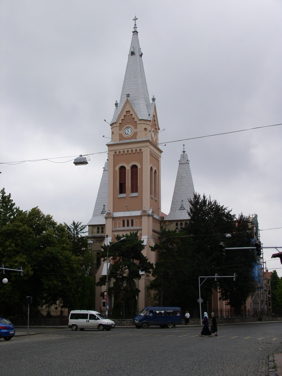 Cathedral of Saint Martin of Tours. Mukacheve, Ukraine.